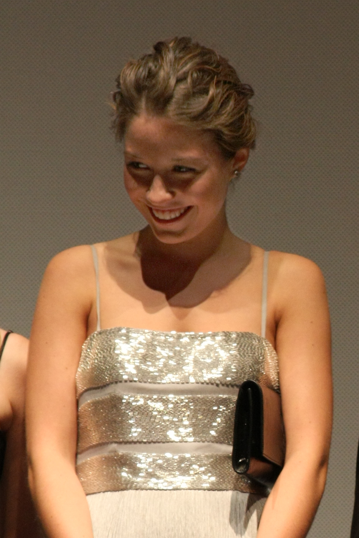 Stone's smile